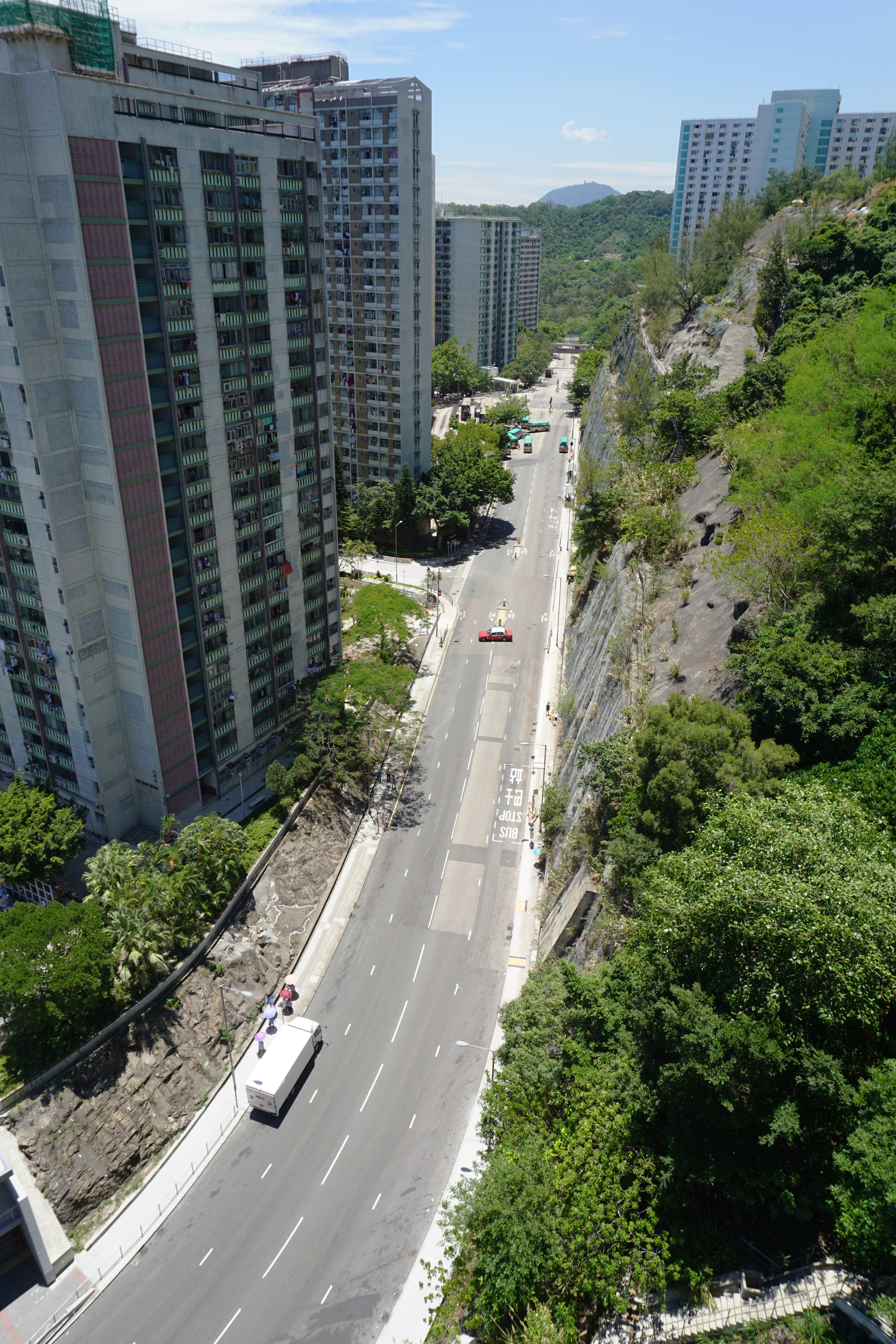 Shun On Road in Sau Mau Ping, Hong Kong.